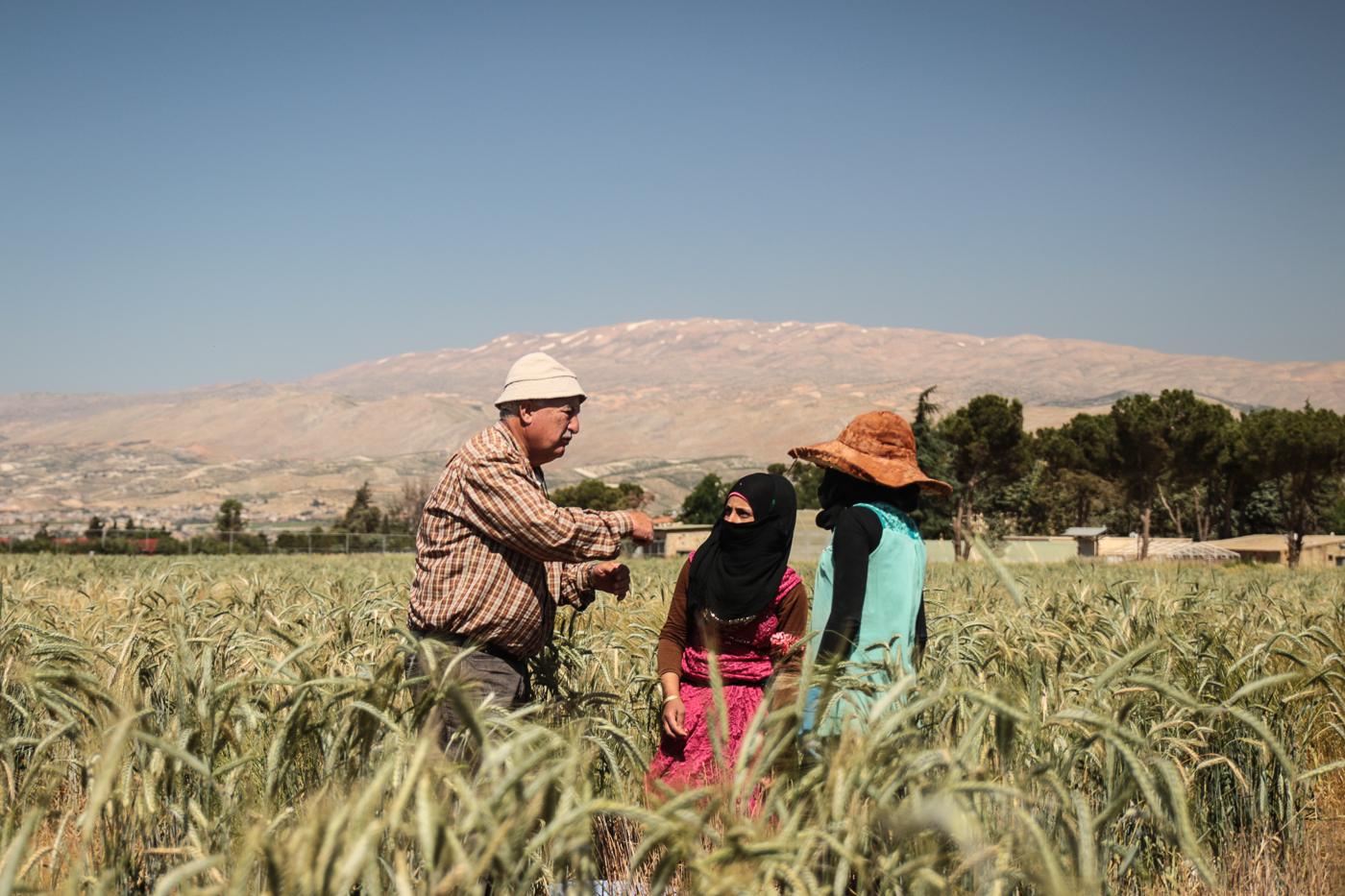 Crops are harvested in fields at the International Center for Agricultural Research in the Dry Areas, or ICARDA, site in Terbol, Bekaa Valley. (J.Owens/VOA)